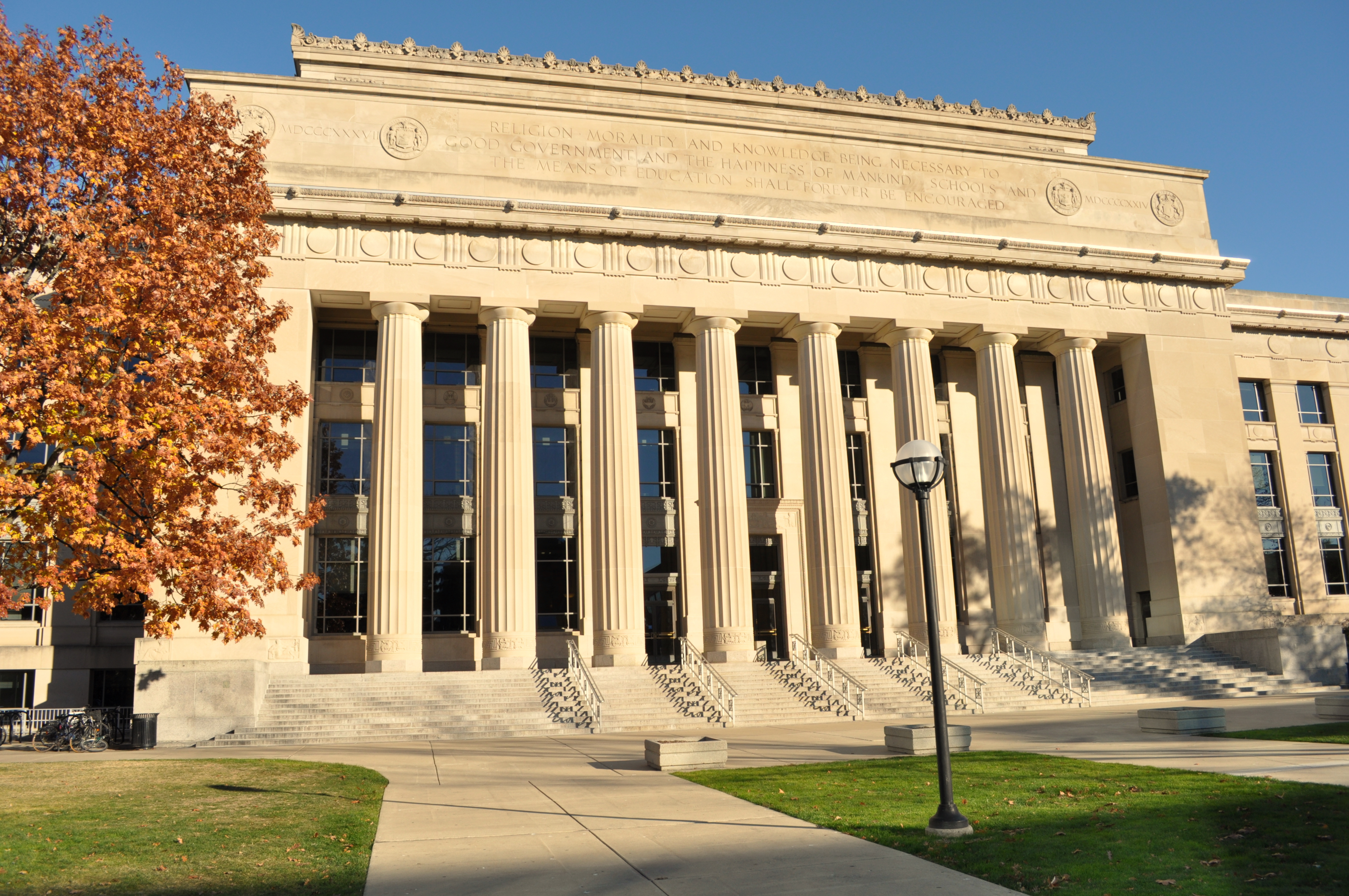 Angell Hall — University of Michigan campus. Neoclassical style architecture. Taken November 6, 2010